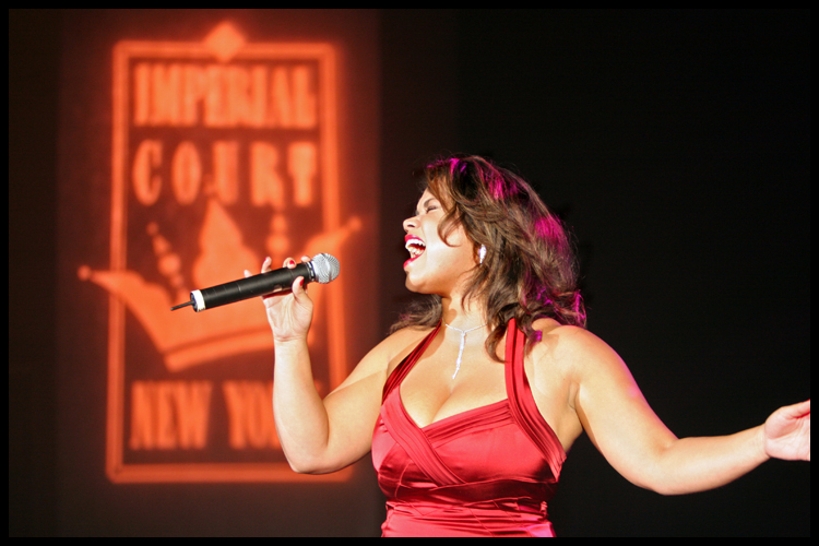 Imperial Command Performance by Kimberley Locke